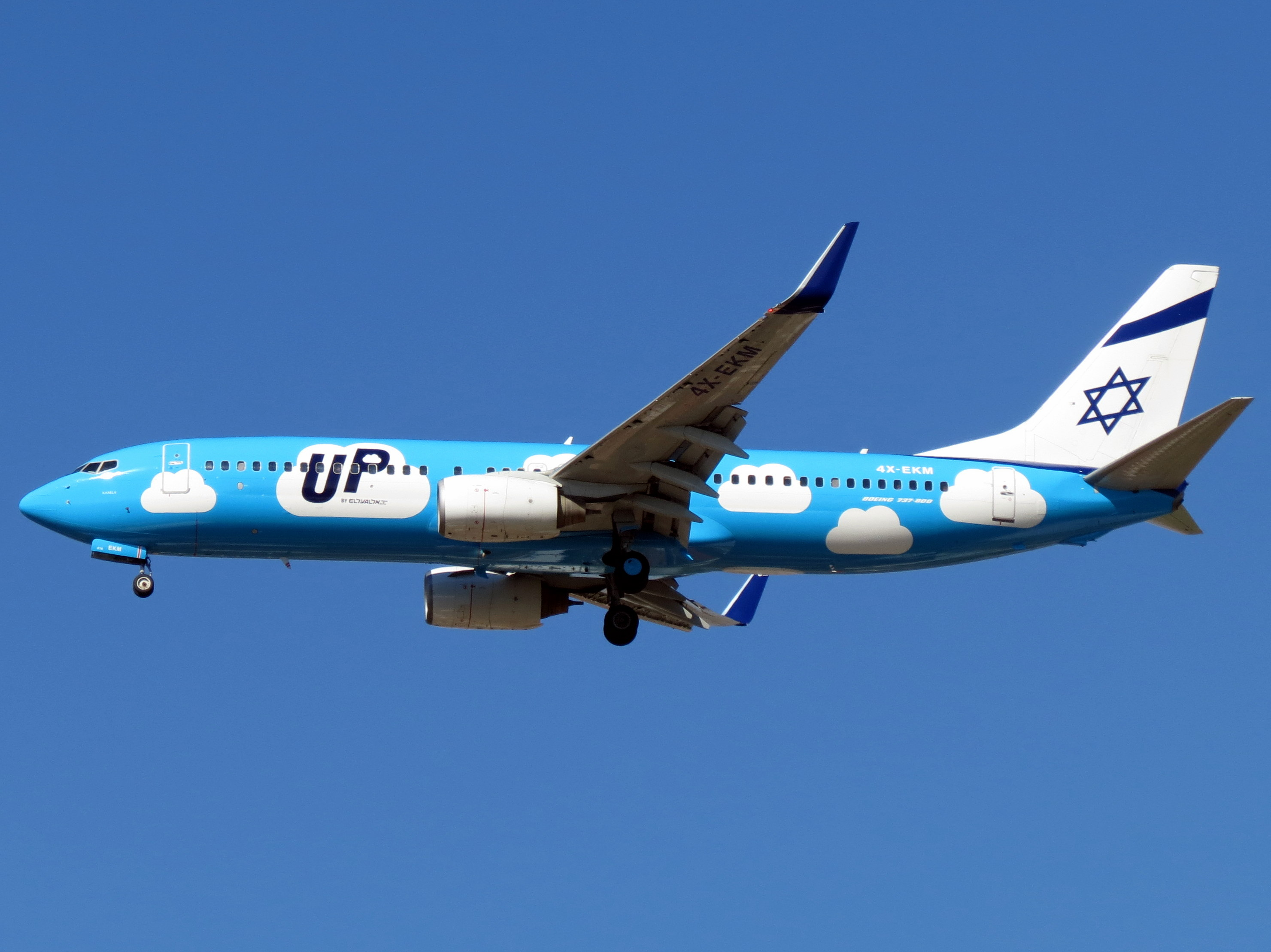 In the new livery of UP by El Al.